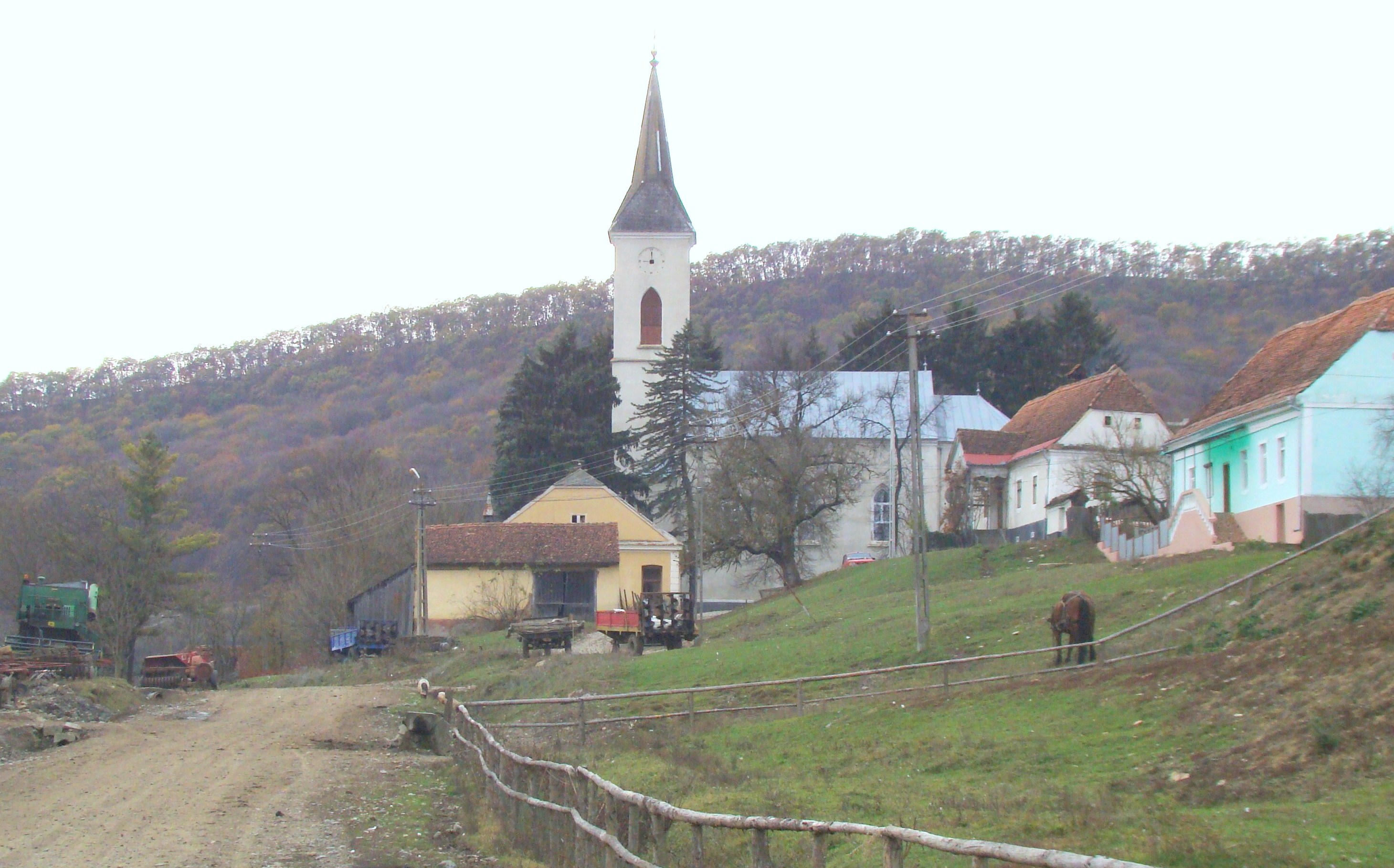 Lutheran church in Albeștii Bistriței, Bistrița-Năsăud county, Romania